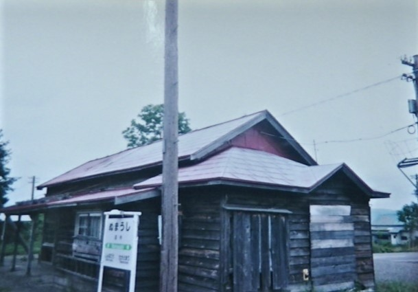 JR Shinmei line Numaushi station (1995)